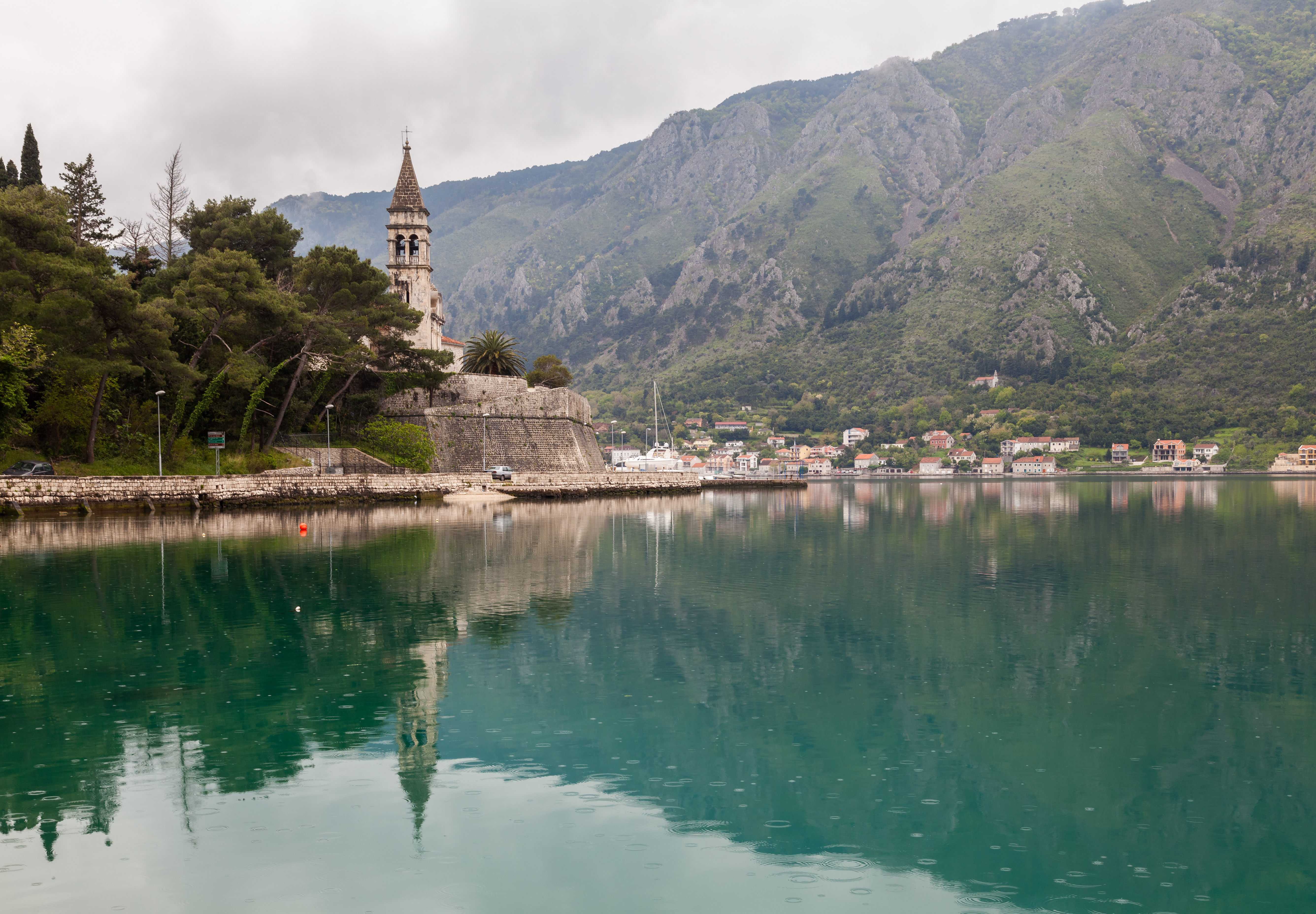 St Matthews church, Dobrota, Bay of Kotor, Montenegro